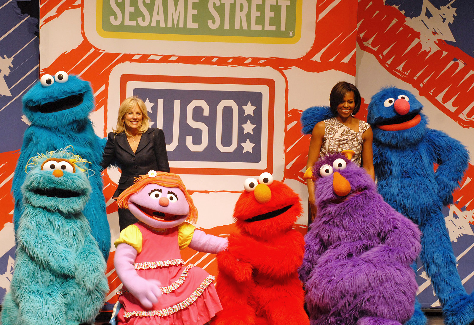 First Lady Michelle Obama and Dr. Jill Biden pose with some of the cast of Sesame Street during a “Joining Forces” community event in the Veterans Memorial Auditorium in Columbus, Ohio, April 14, 2011.